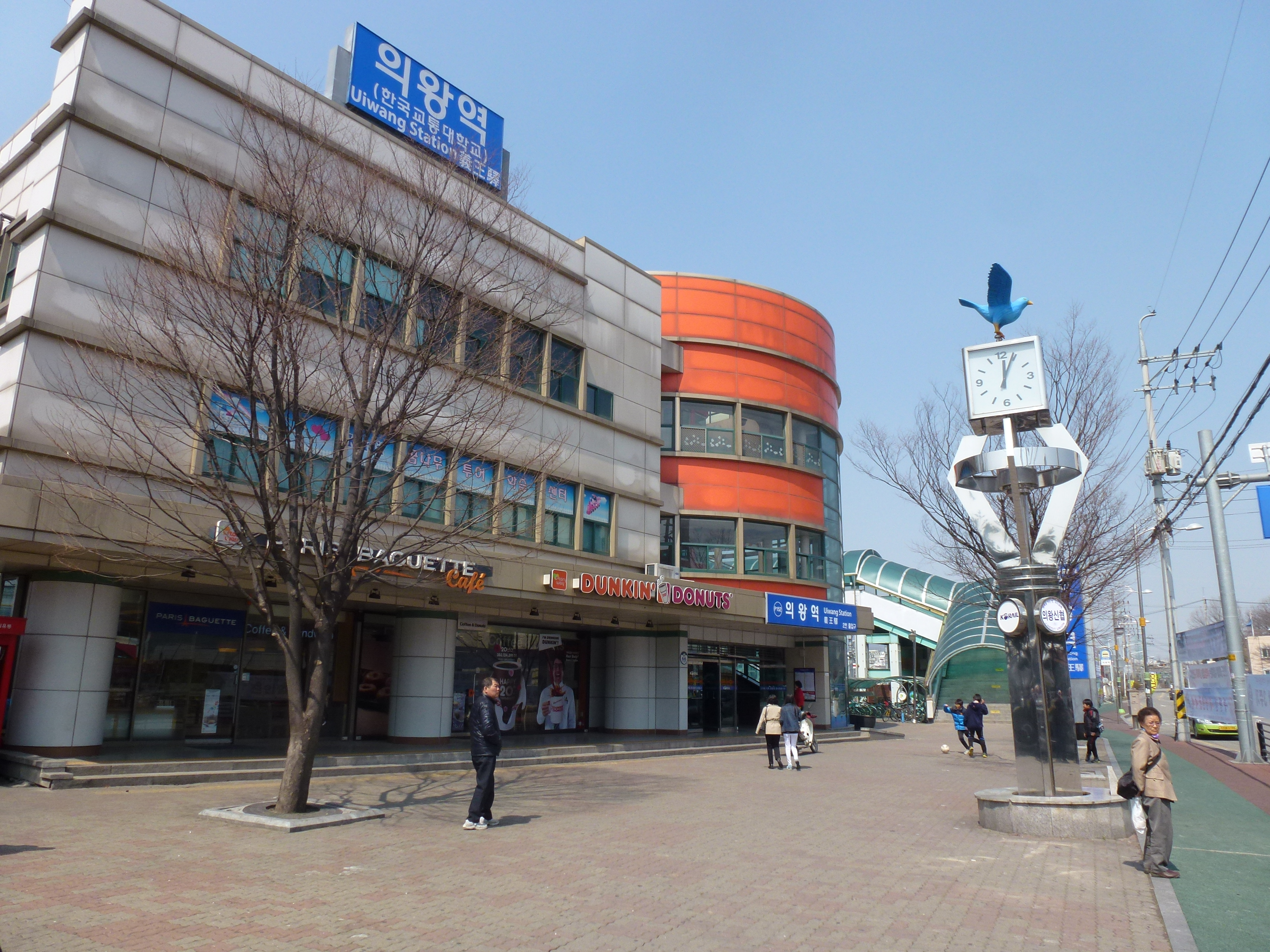 Uiwang station, Seoul, South Korea